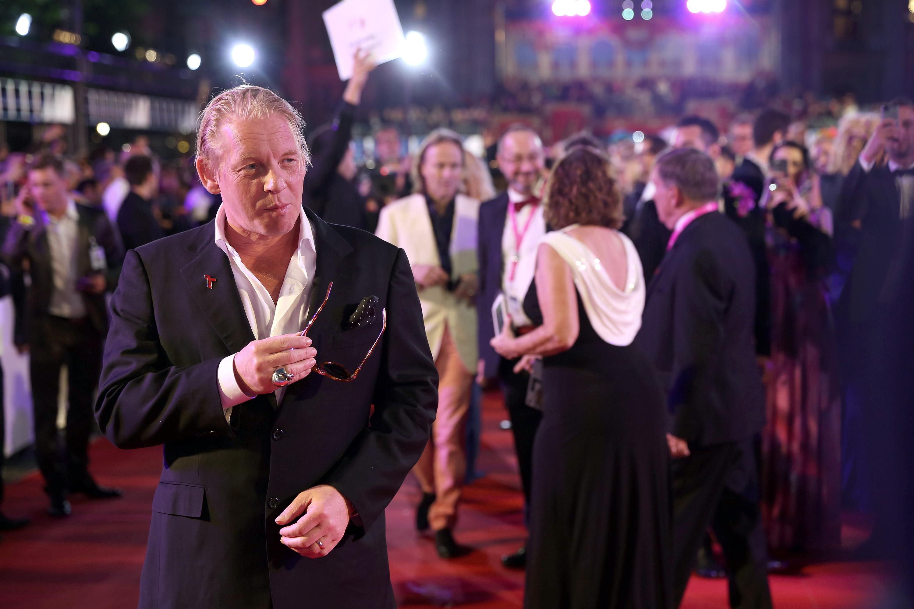 Life Ball 2014: Ben Becker on the red carpet on the square in front of the Rathaus (Town Hall) of Vienna, Austria.